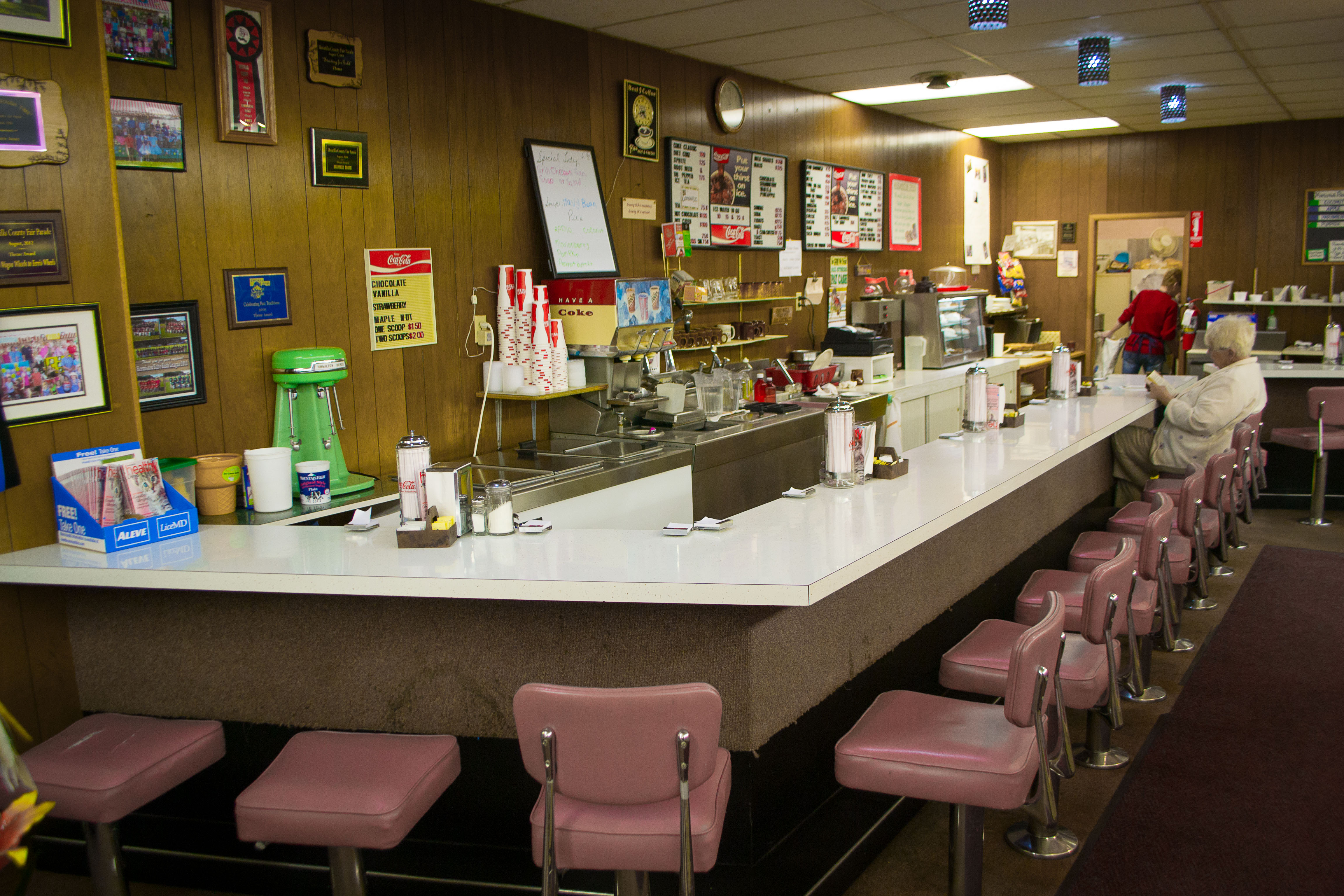 The Hermiston Drug lunch counter